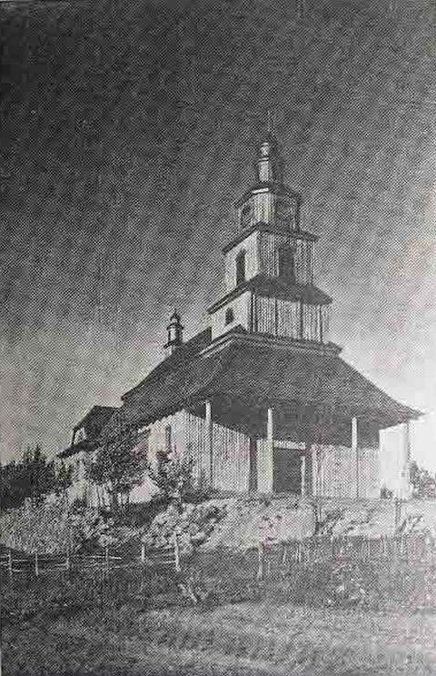 St. Peter and Paul Church in Drysviaty, Belarus.